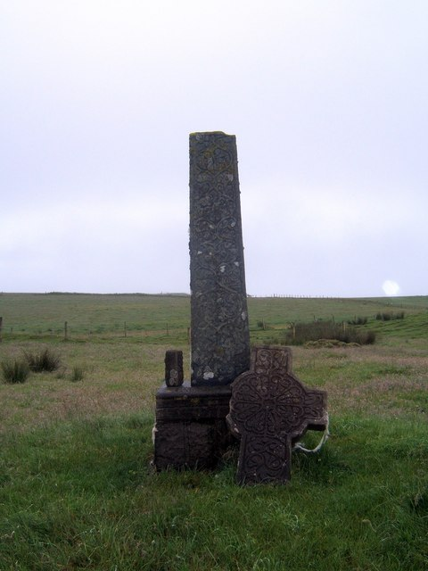 Celtic Cross Kildonnan graveyard